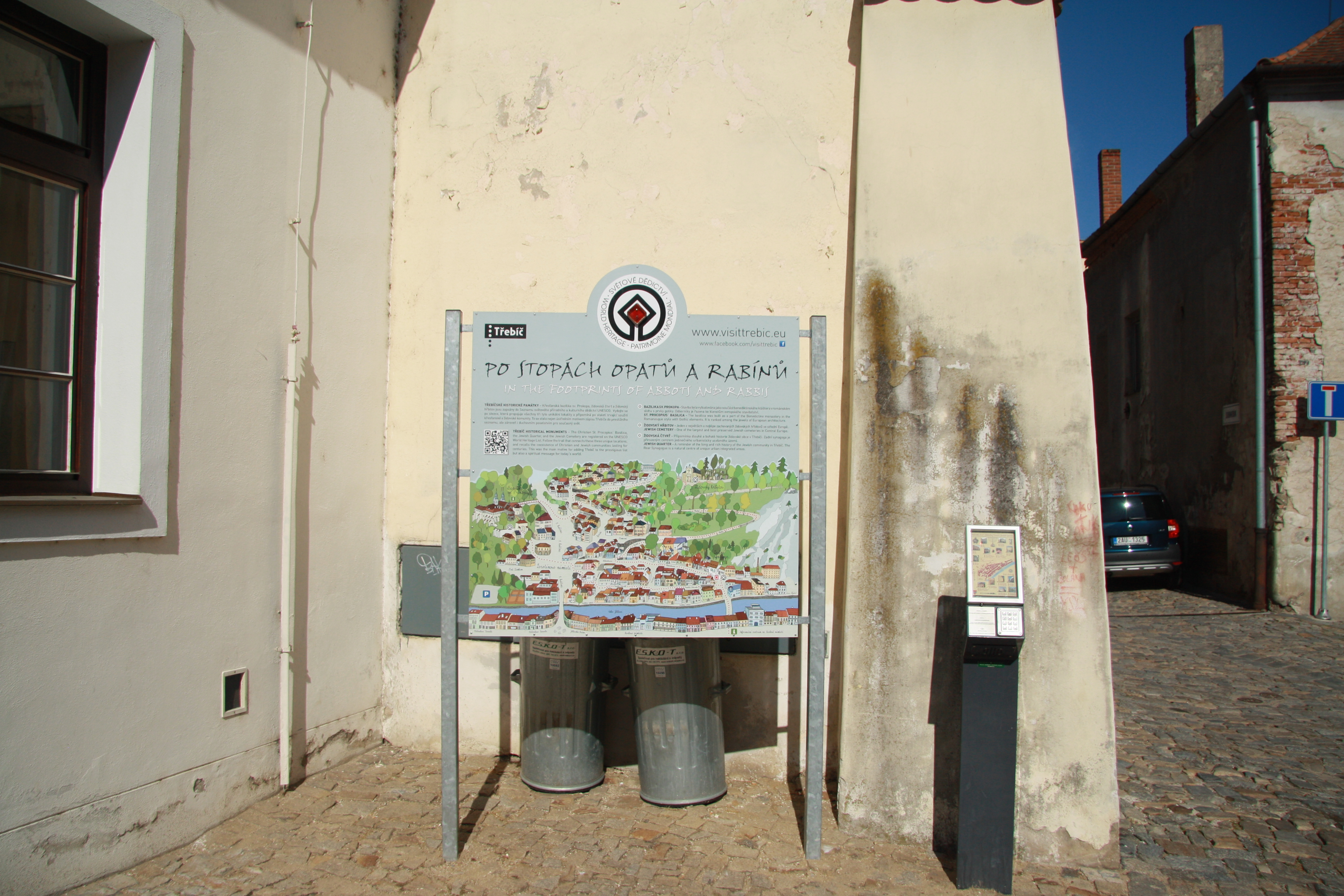 Sign of Way Po stopách opatů a rabínů in Třebíč, Třebíč District.